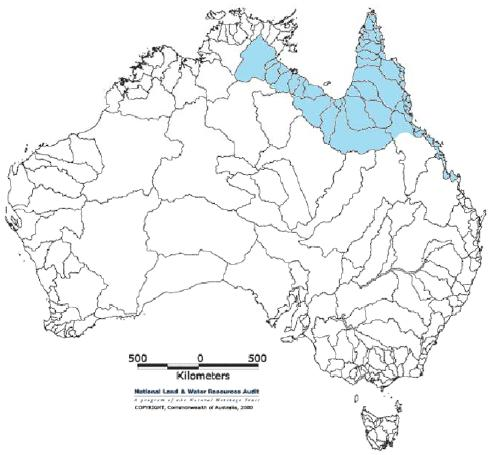 distribution of Chelodina canni in Australia